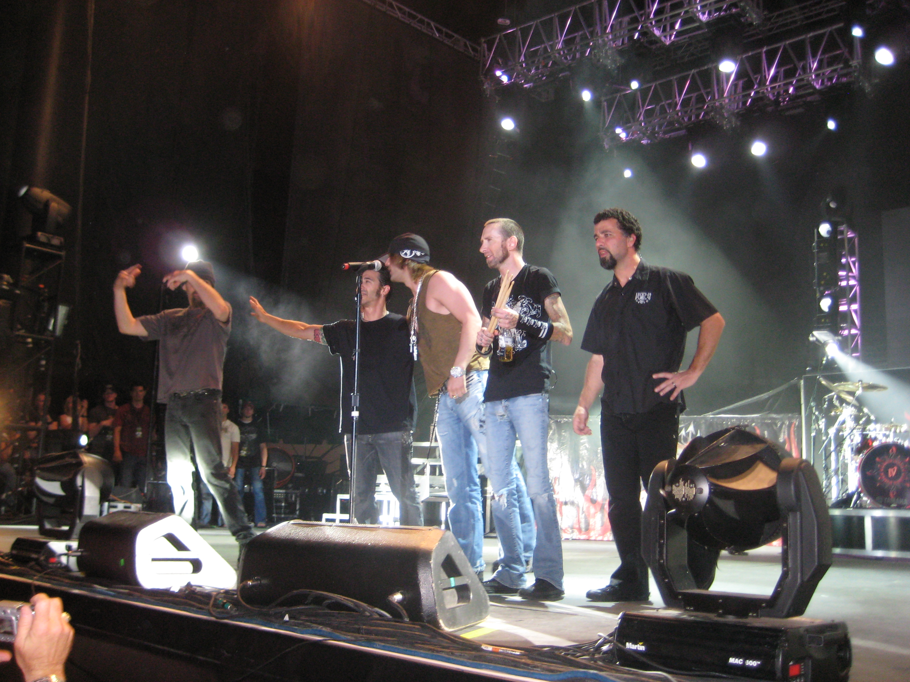 Godsmack and Criss Angel in concert at the Charter One Pavillion Chicago IL June 15, 2007 - Q101 Block Party